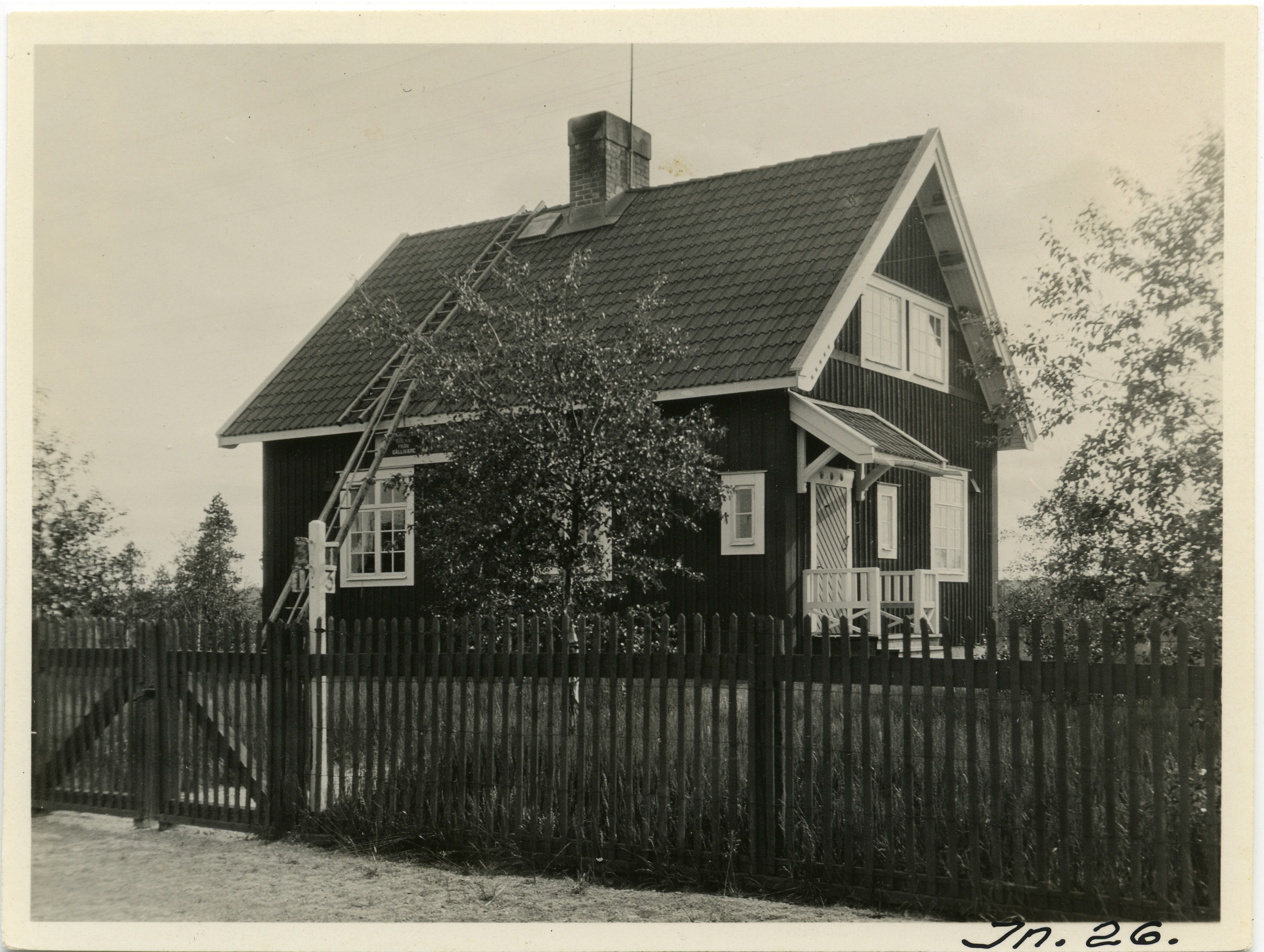 The lengthman's cottage in Luleluspen